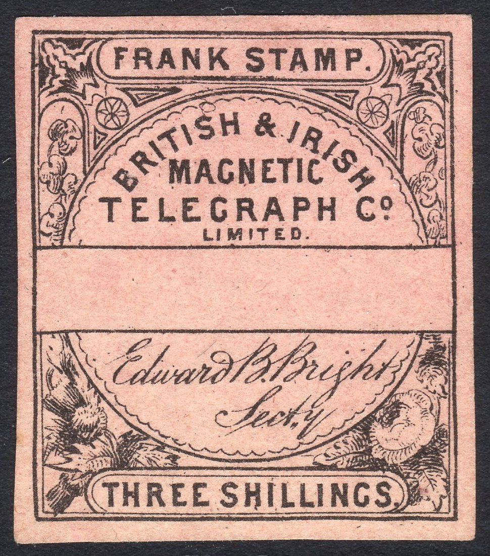 British & Irish Magnetic Telegraph Co. Limited 3 shilling stamp c. 1862 remaindered without control number.